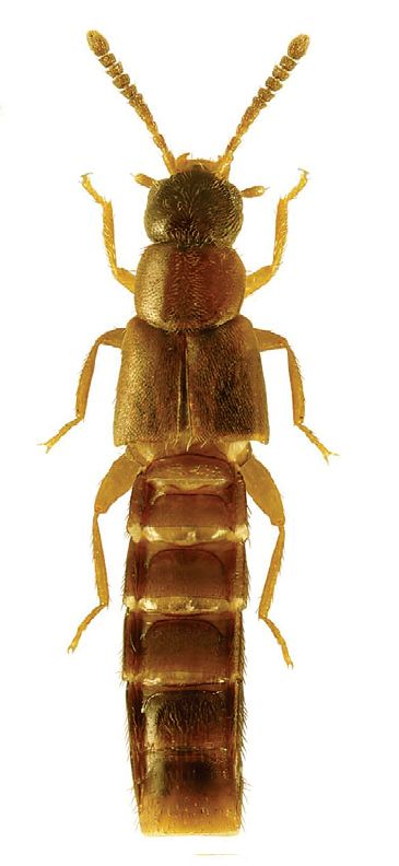 Alisalia elongata, dorsal view (apical part of abdomen removed).